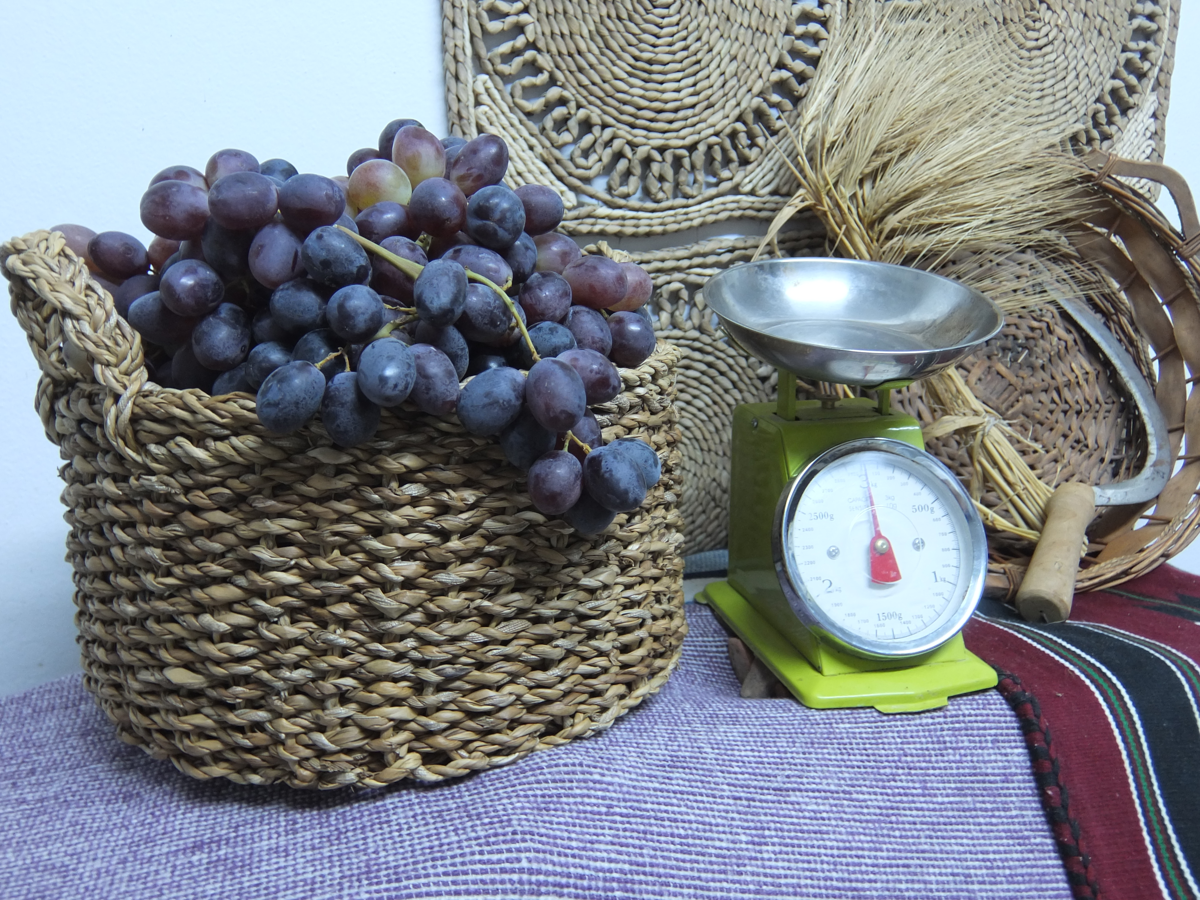 Harvested grapes in basket and reaped barley